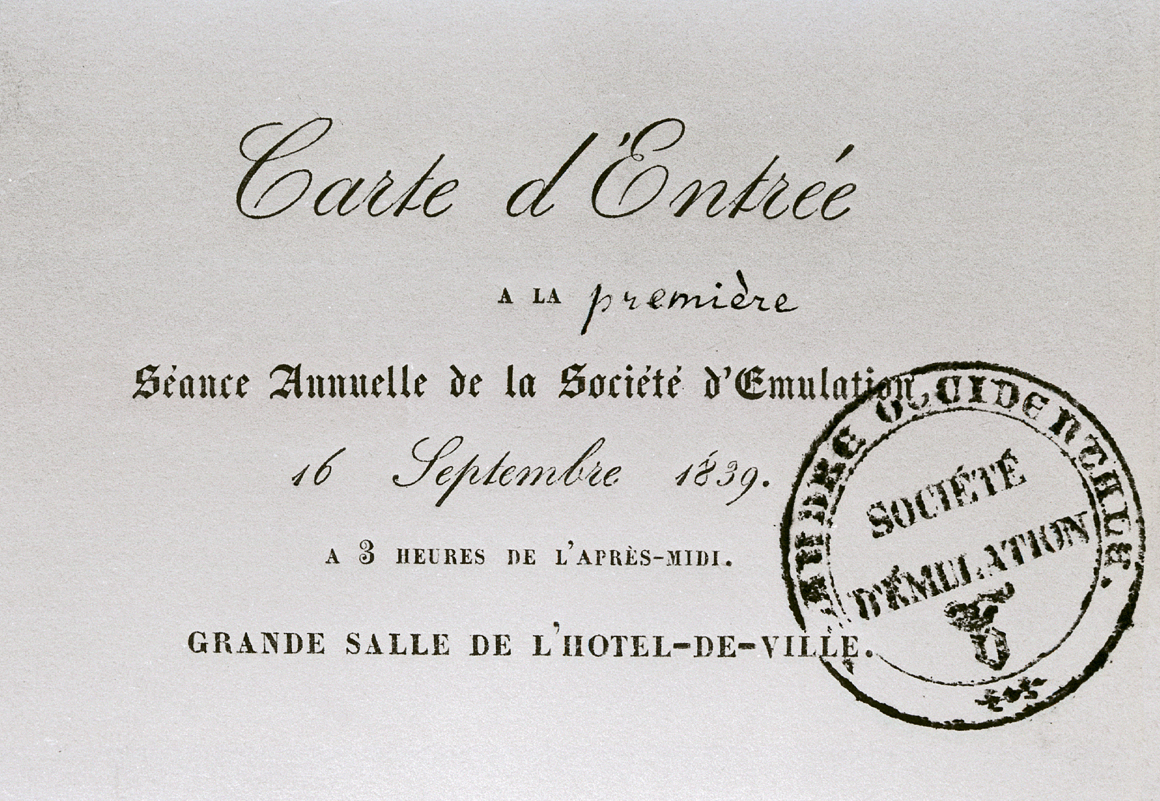 Admission ticket for the first annual meeting of the Bruges Historical Society (Société d'Emulation), 16 September 1839